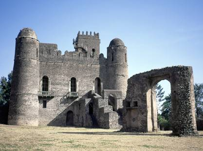 Dawit Rezene